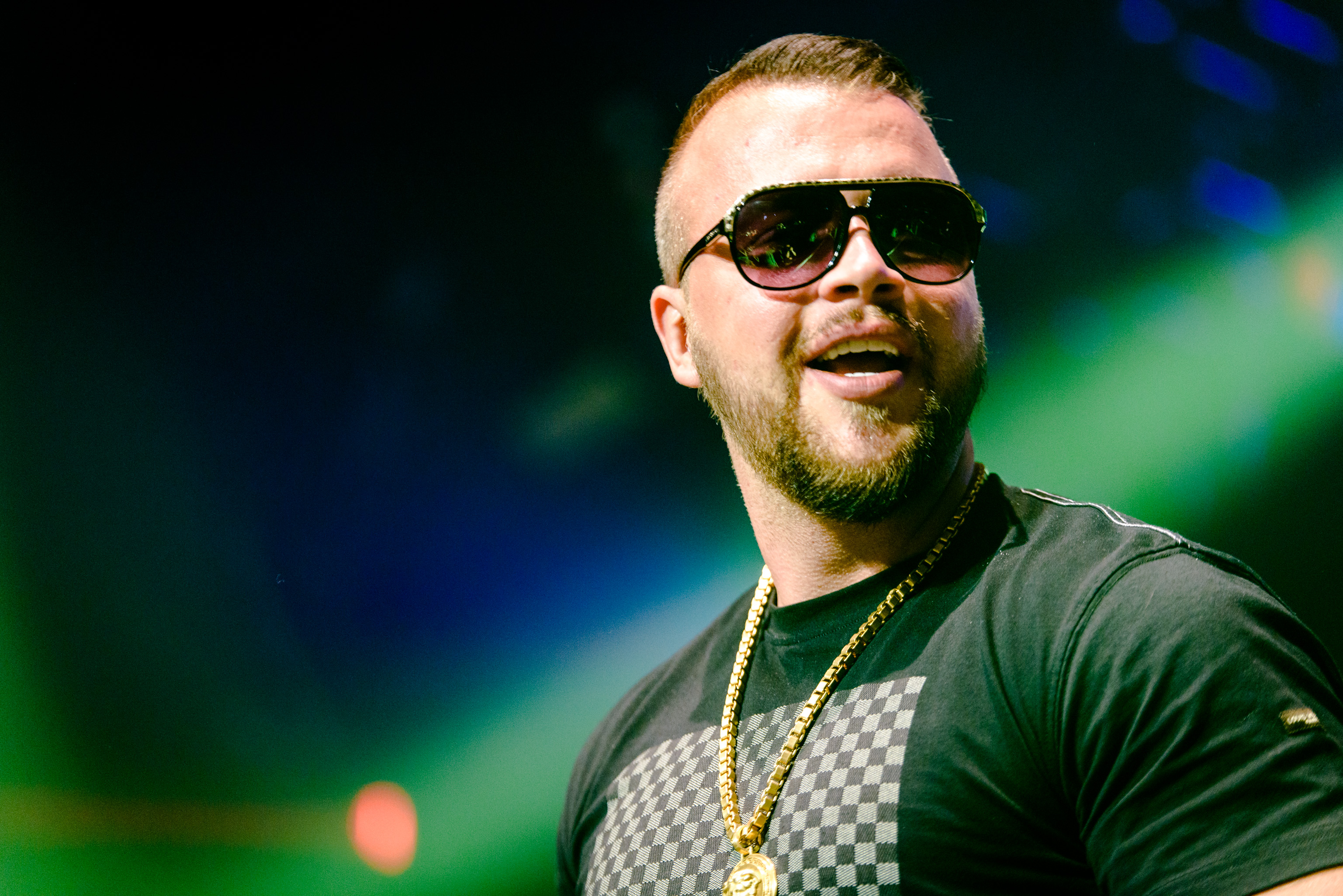 Kollegah in Munich 2015